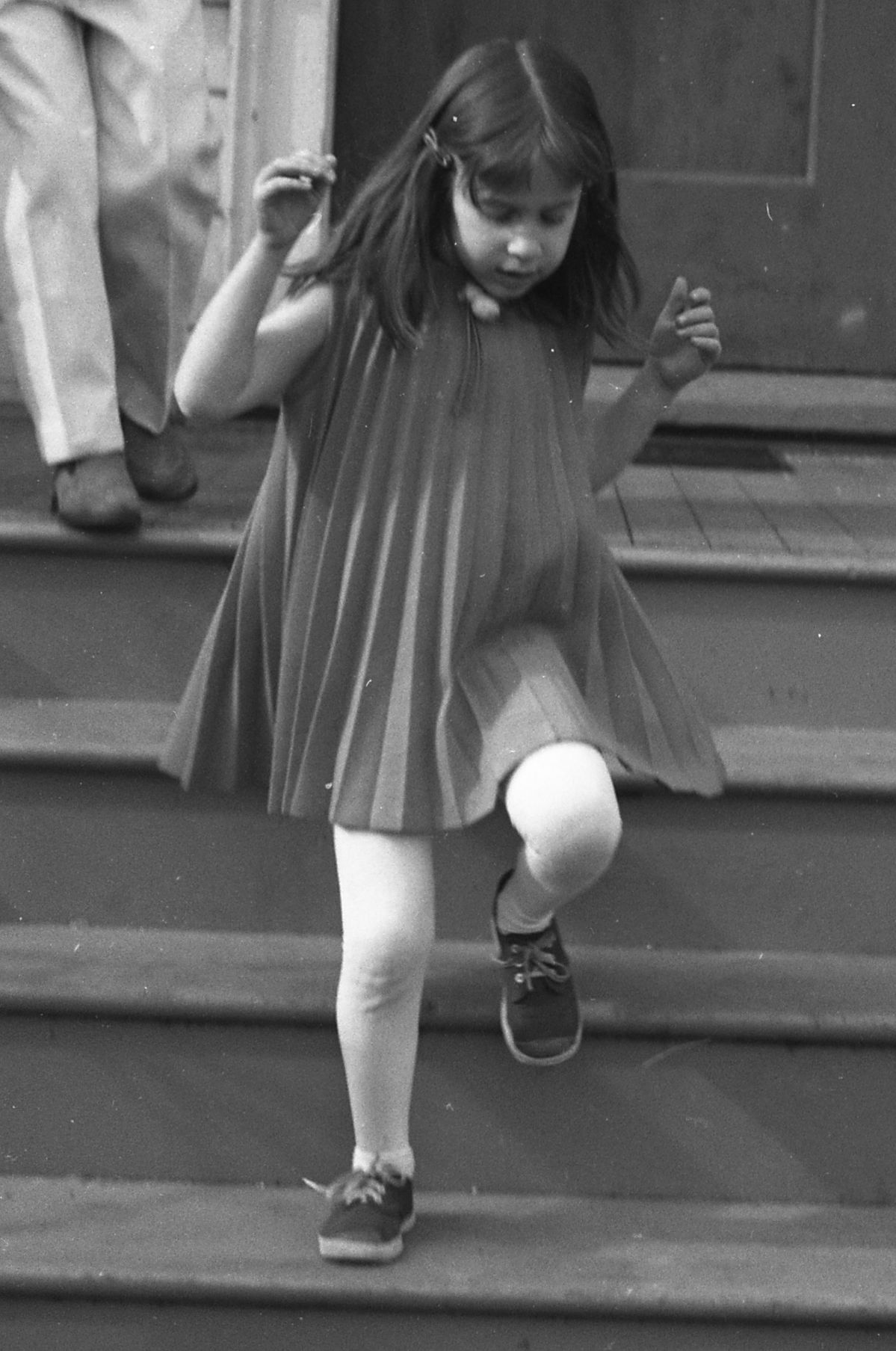 Little girl wearing a pleated dress, going down steps, 1967.jpg Other information Photo by George Garrigues